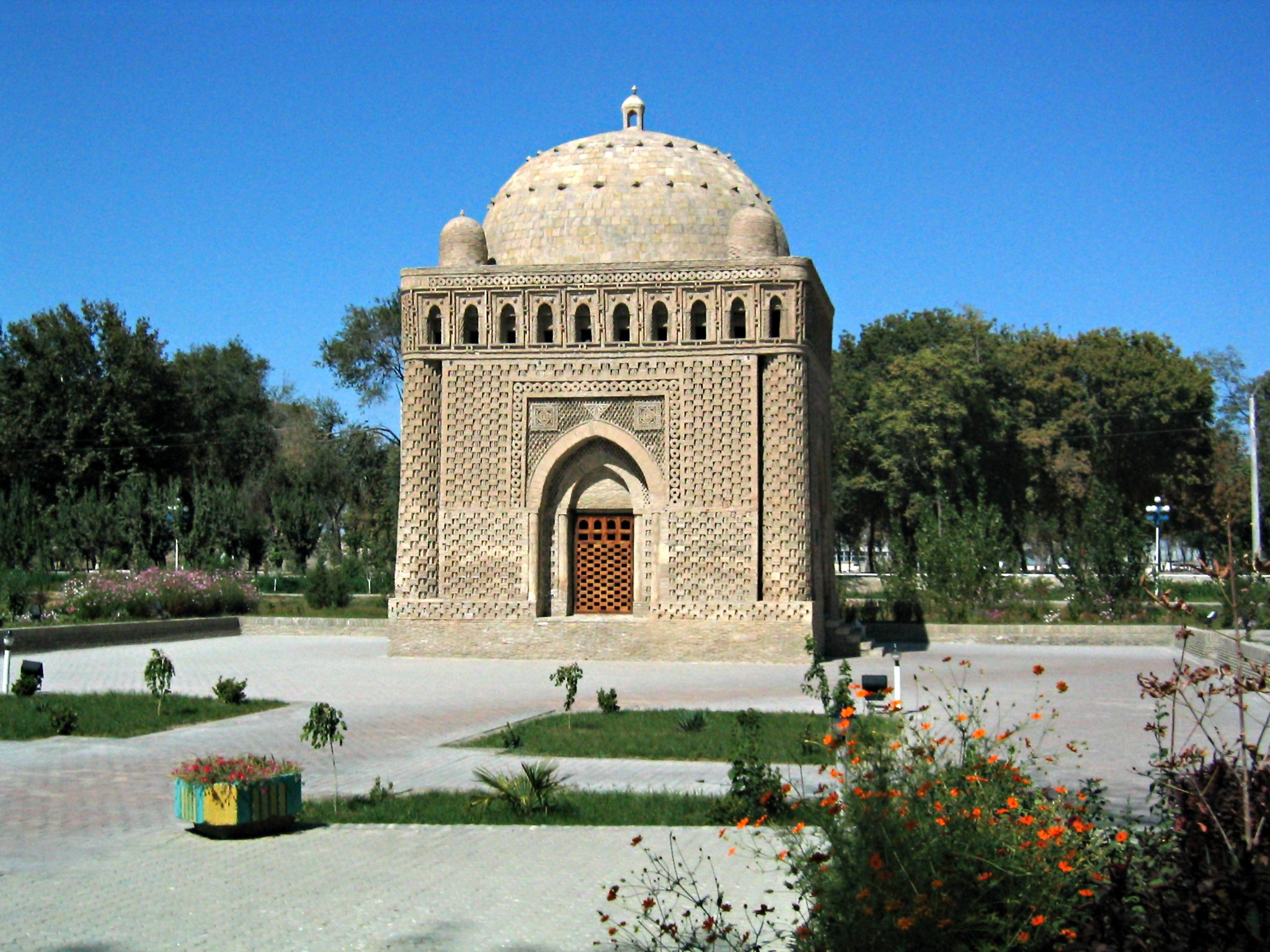 Samanid mausoleum